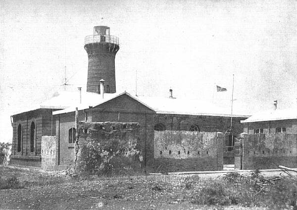 Cape Santiago Lighthouse c. 1903 after it was transferred to American administration following the American annexation of the Philippines.